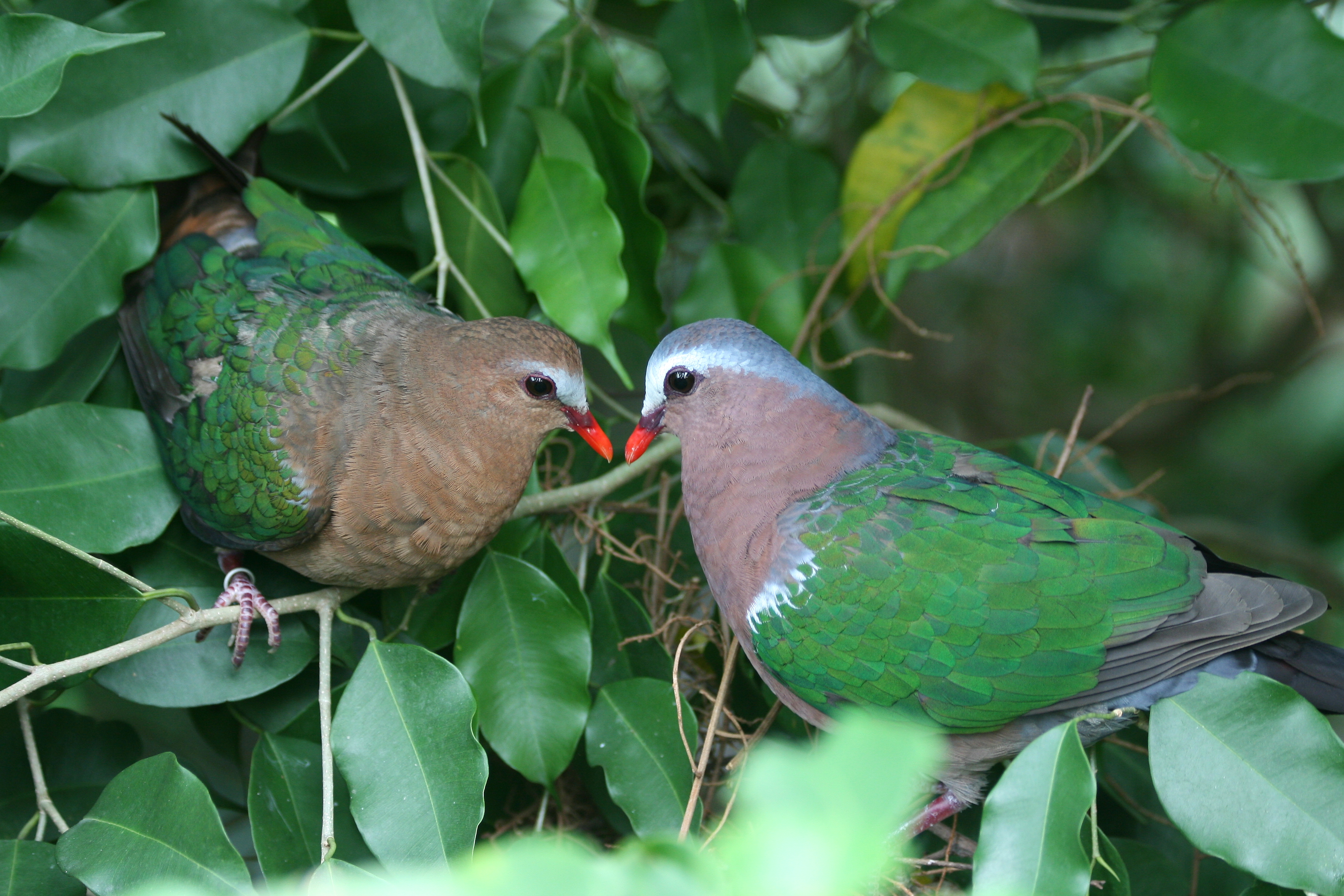 A pair of Common Emerald Doves in captivity.